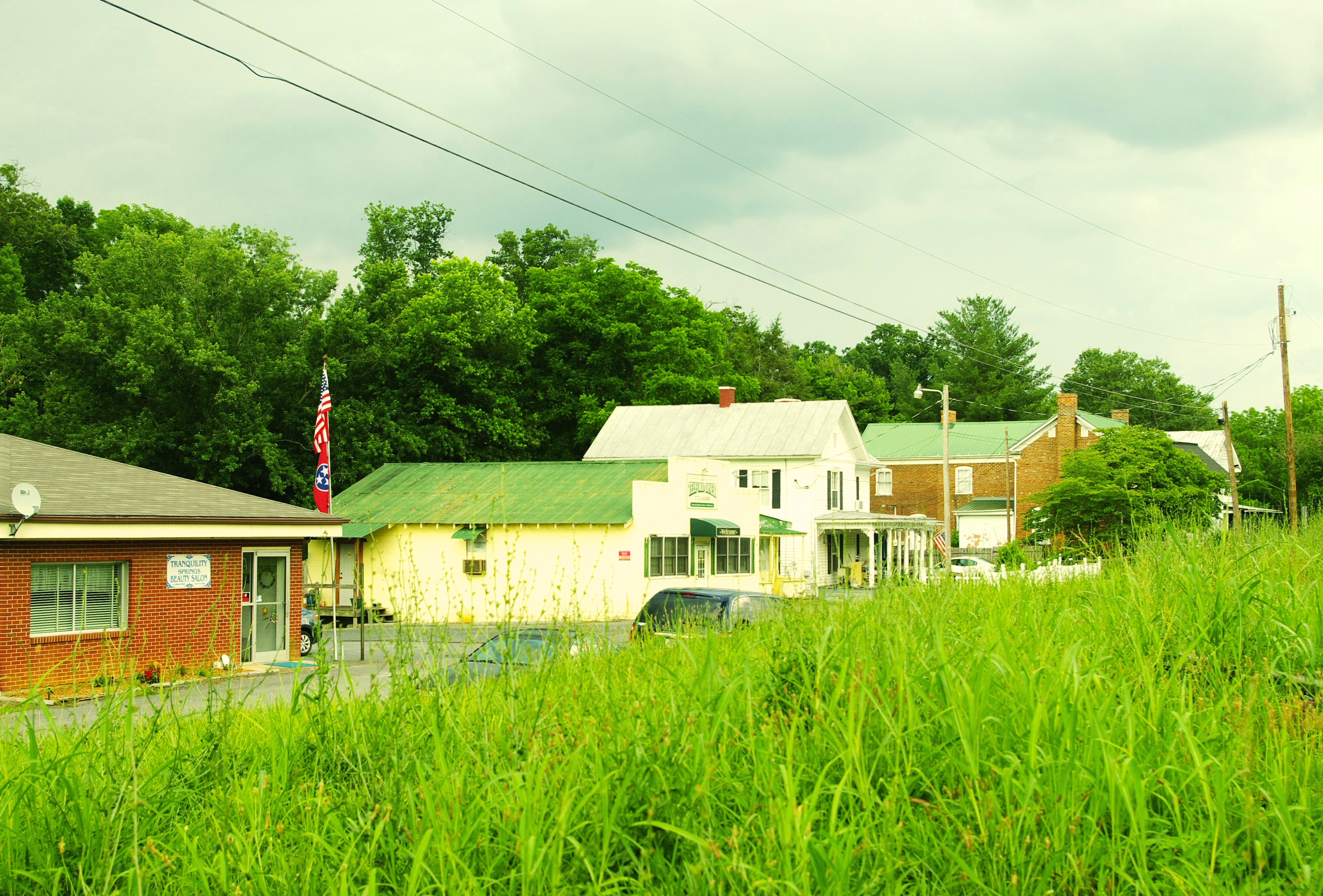 Storefronts along Mill Street in the Telford community of Washington County, Tennessee, United States.